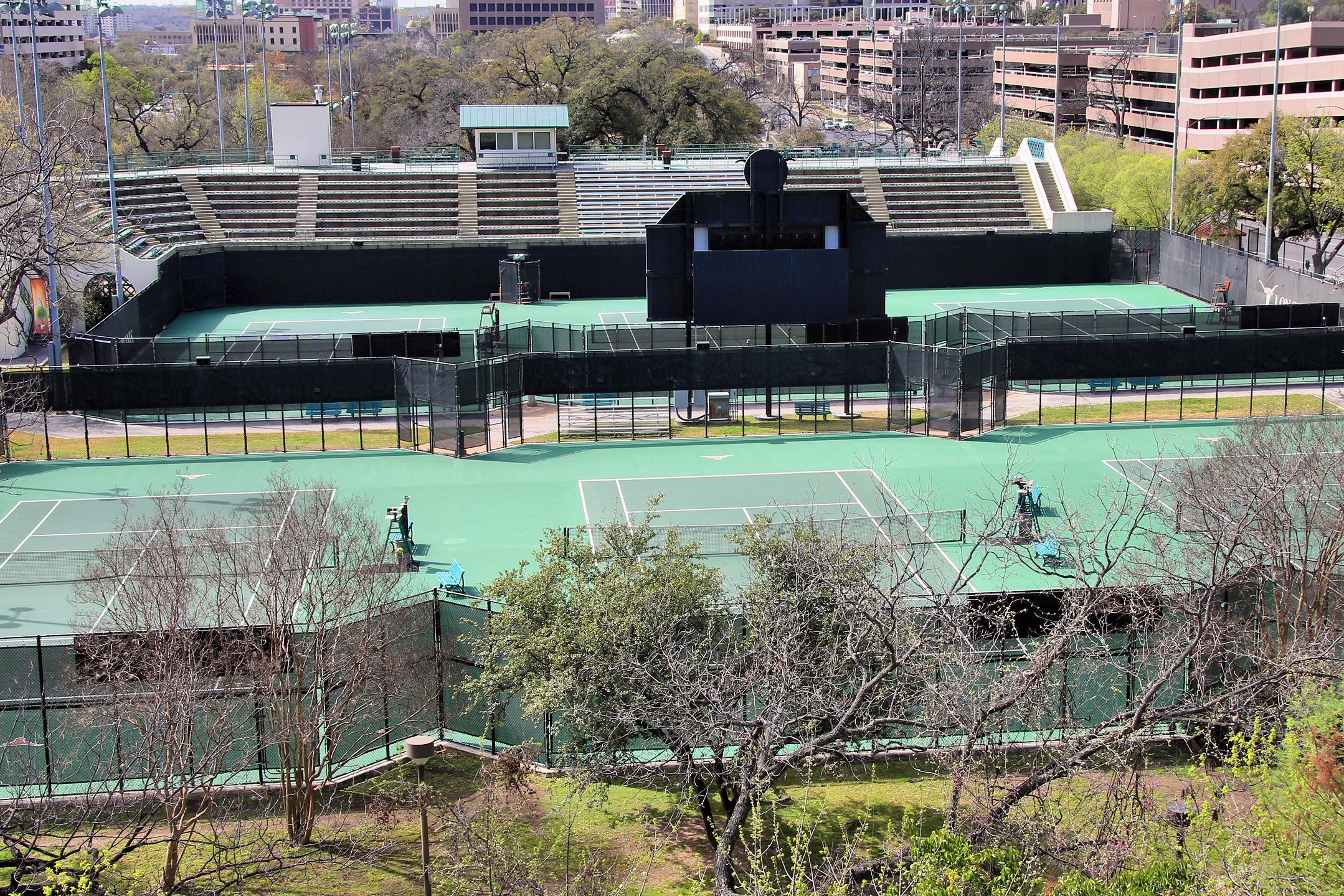 The Penick-Allison Tennis Center at the University of Texas at Austin. The University demolished the tennis center in 2014 to make room for the Dell Medical School.